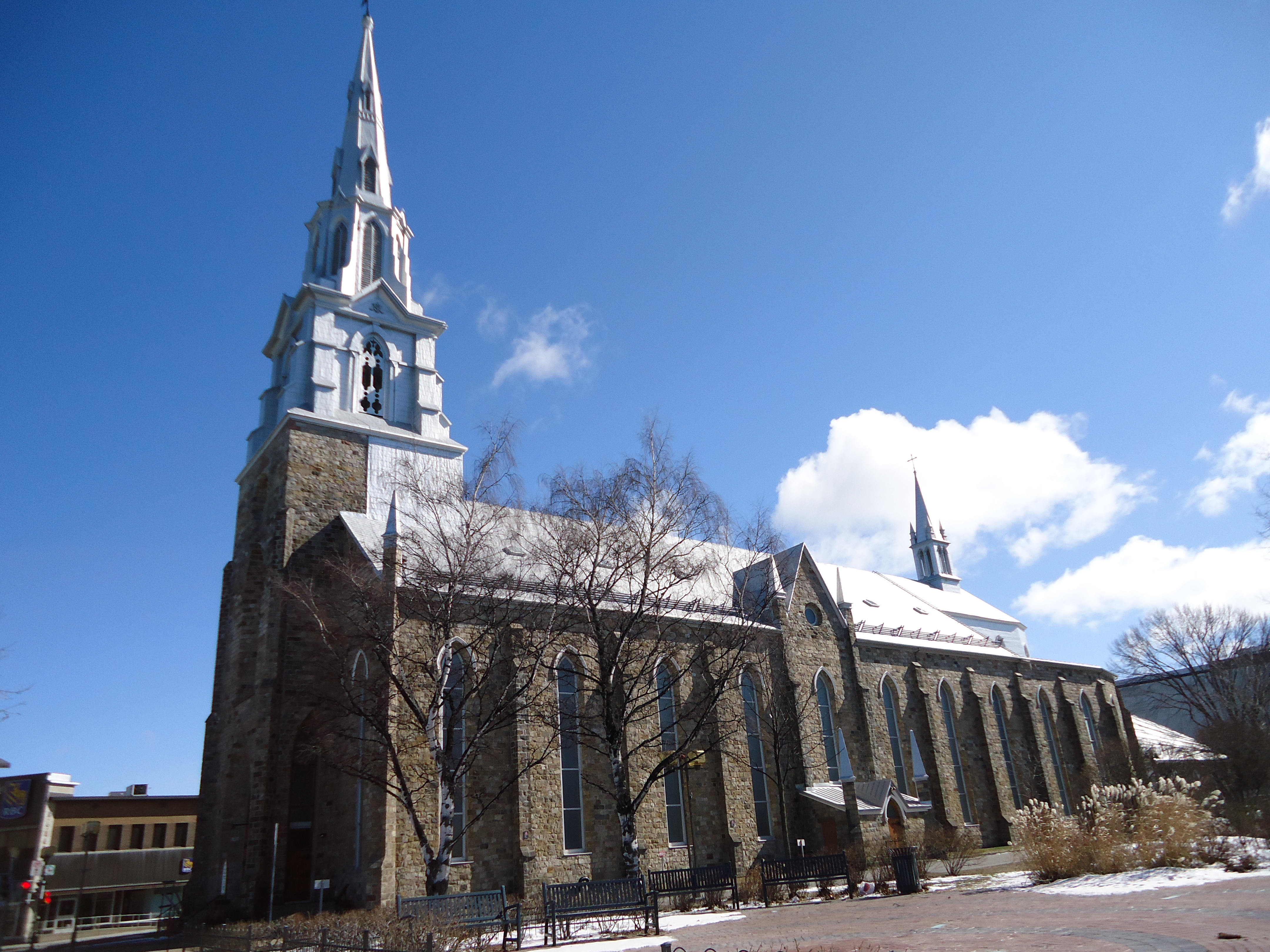 The Cathédrale Saint-Germain in Rimouski in winter.